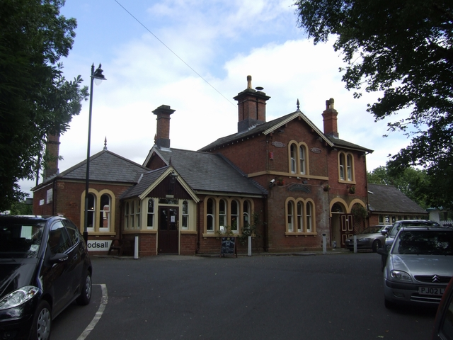 Codsall Railway Station, near to Codsall, Staffordshire, Great Britain. The station buildings are now used as a public house.